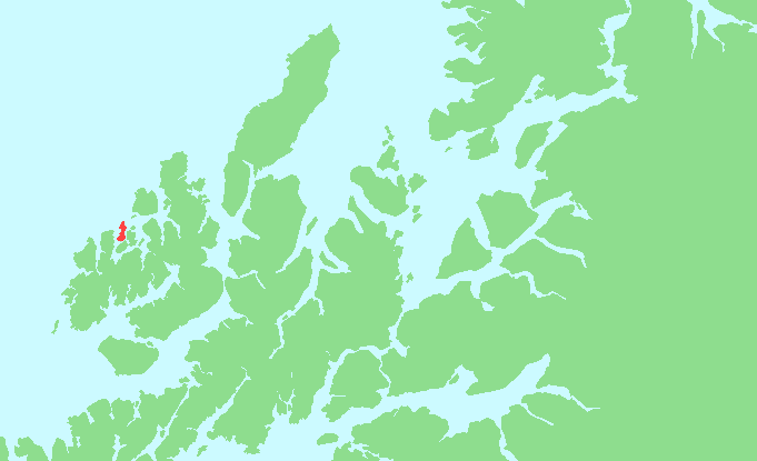 Locator map of Tindsøya, Nordland, Norway